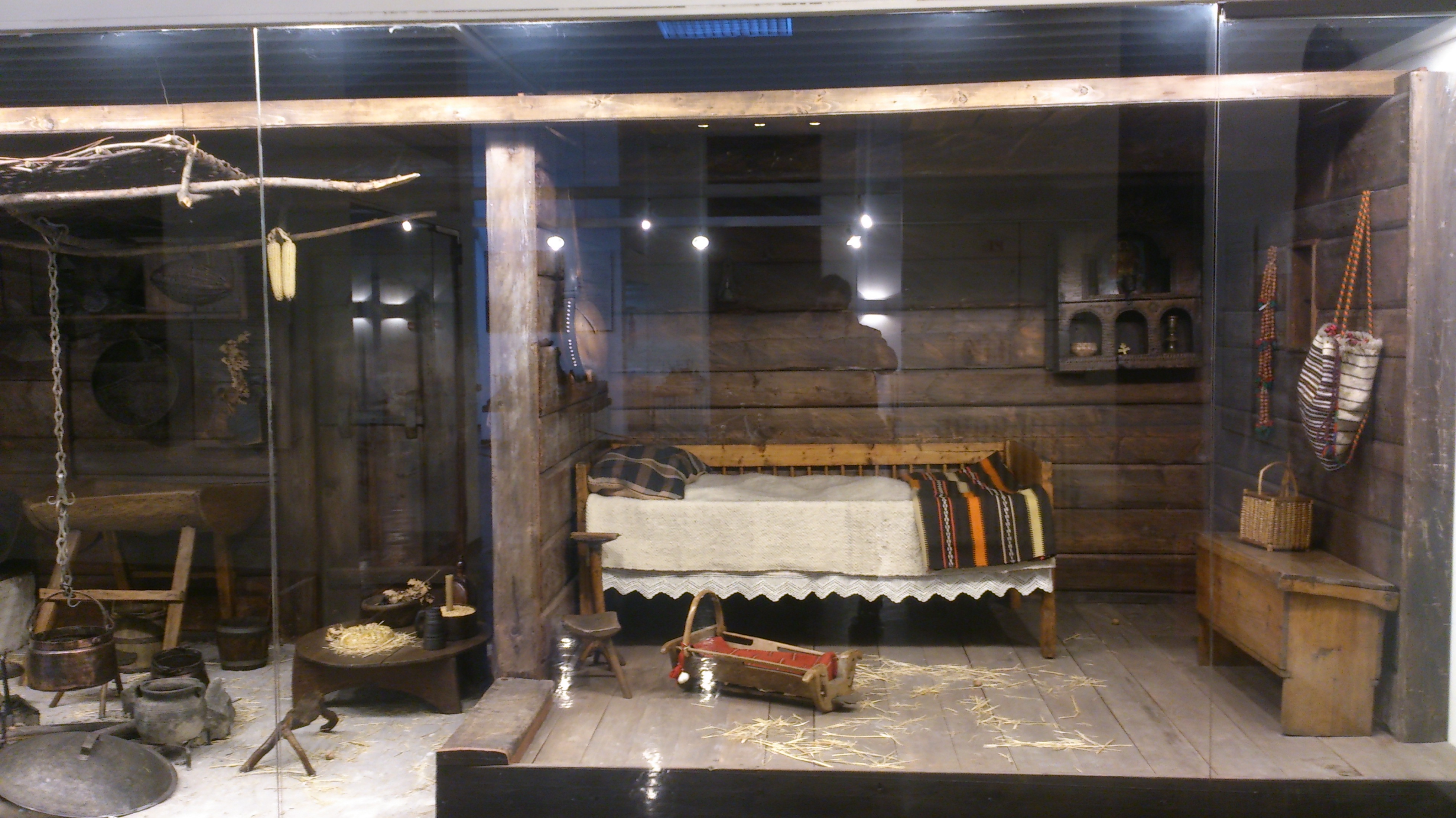 Ethnografic Museum in Belgrade, Serbia Srpski (latinica): Etnografski muzej u Beogradu